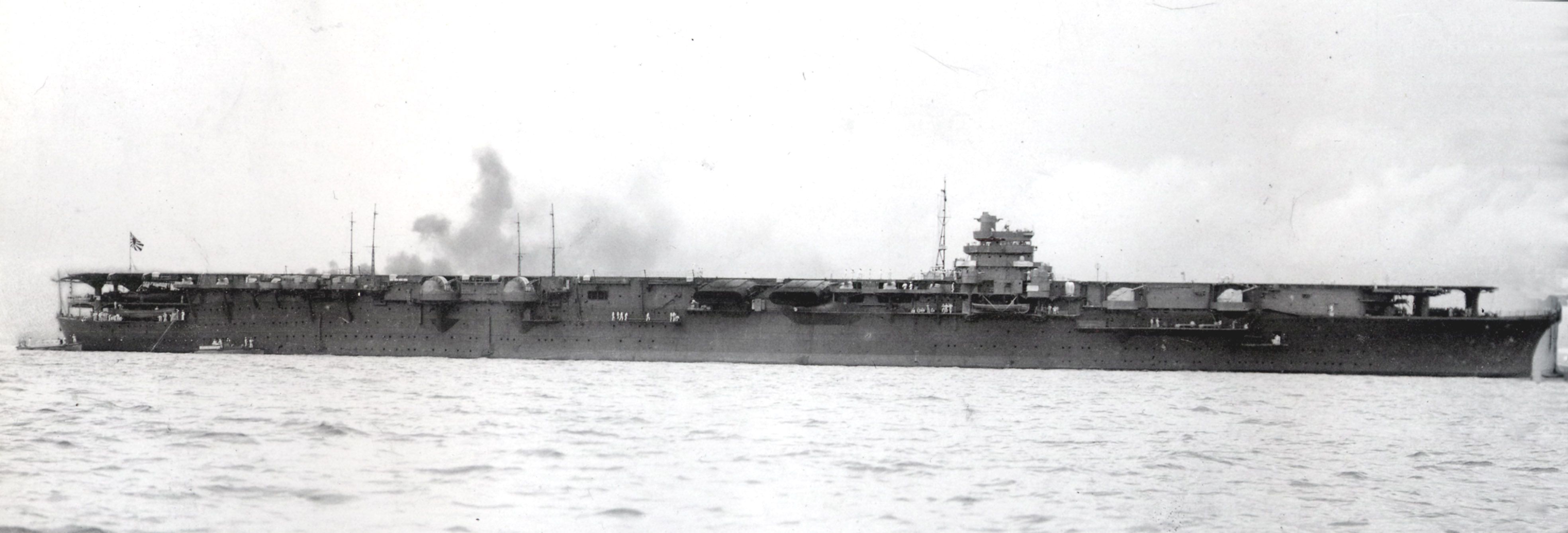 日本海軍航空母艦 翔鶴型「翔鶴」完成直後の写真。(Japanese Navy Aircraft Carrier Shokaku type "Shokaku" immediately after completion photo)